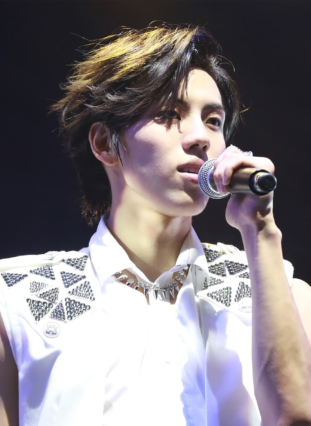 Jang Dong-woo at the One Great Step Concert in Taipei on October 12, 2013.